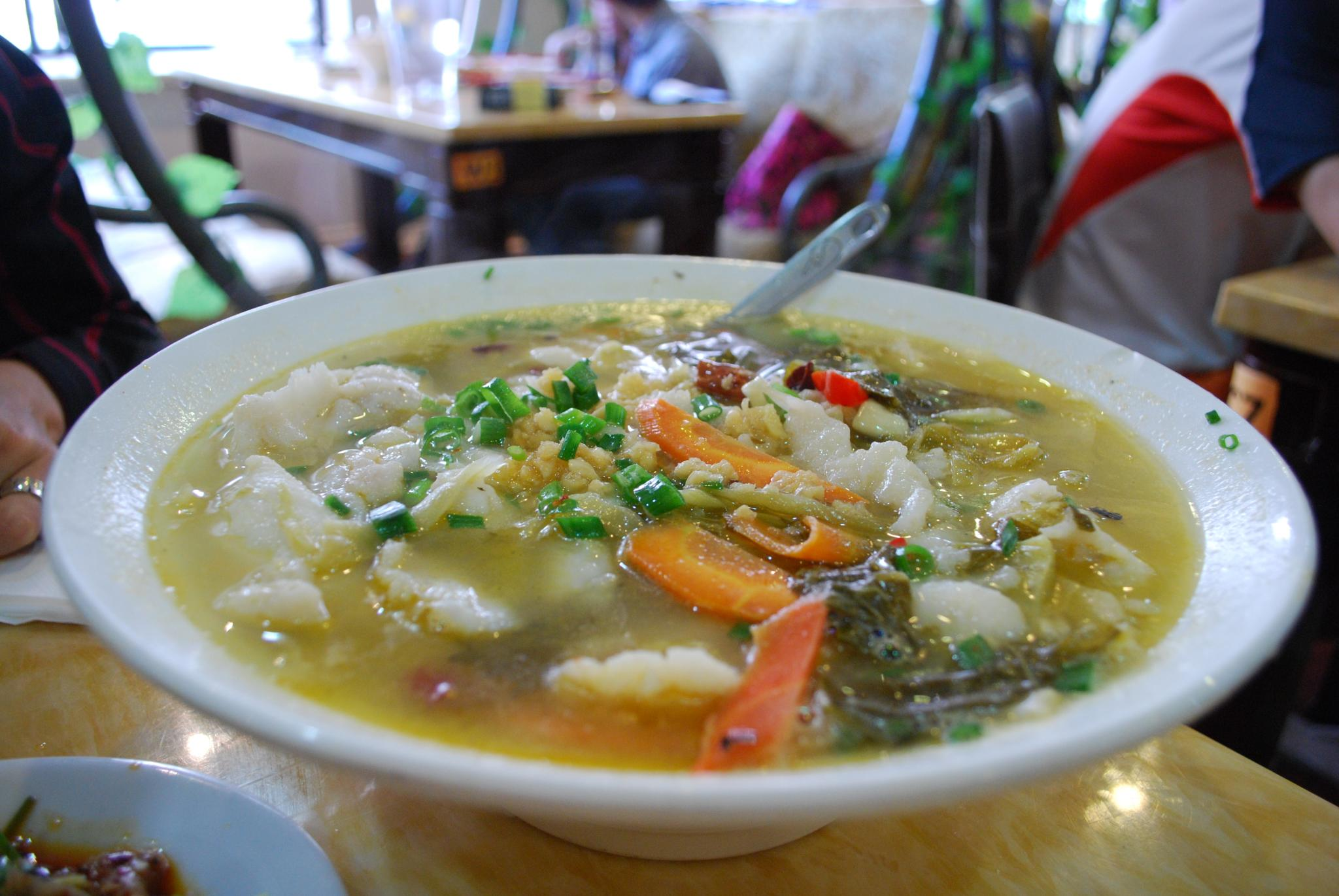 We wanted fish, but wanted something other than 水煮鱼 Spicy Boiled Fish, so we went for the 酸菜鱼 Preserved Mustard Greens with Fish which turned out to be very good! Loads of sour 酸菜 preserved mustard greens and silky smooth fish, and quite spicy despite looking rather plain. 麻辣诱惑 Charming Spicy (03) 9663 9898 272 Lonsdale St Melbourne VIC 3000